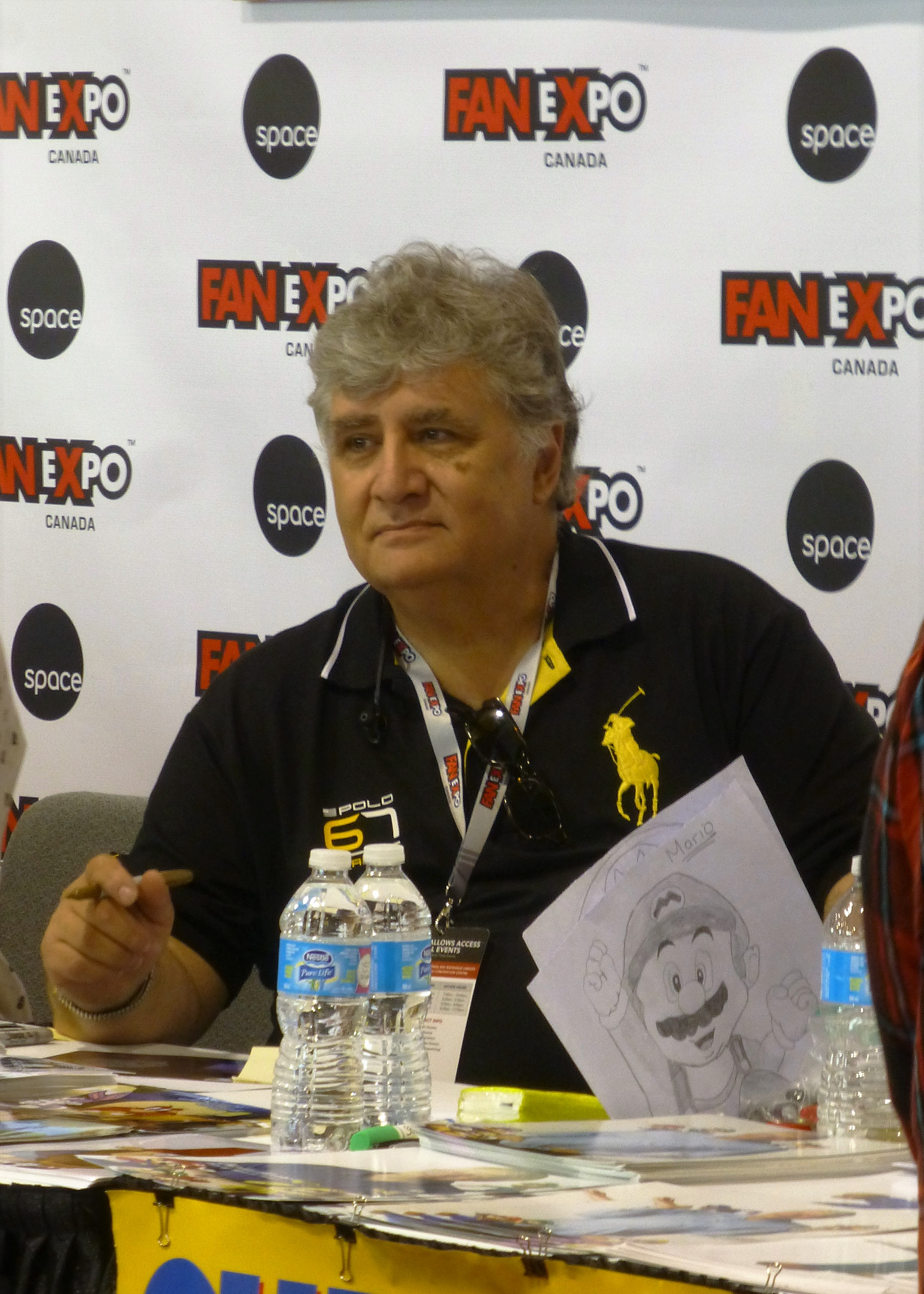 Maurice LaMarche at the Fan Expo Canada 2016